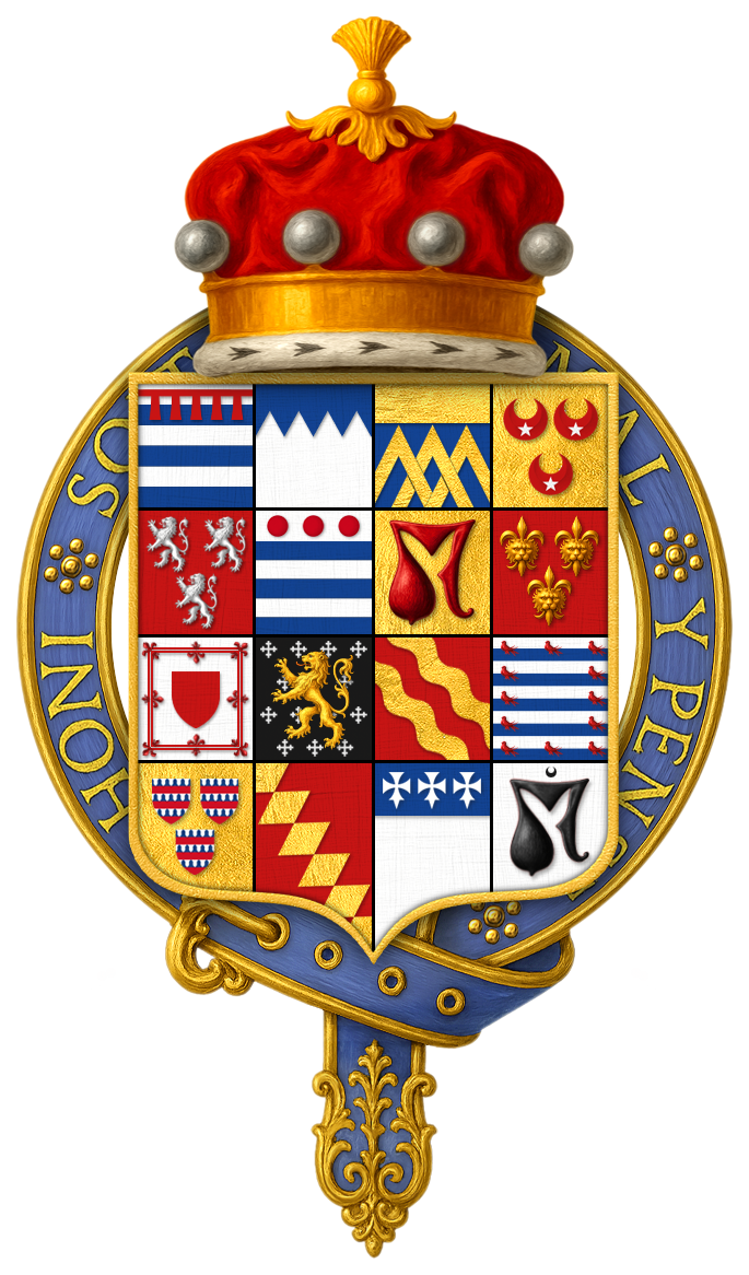 Quartered arms of Sir Arthur Grey, 14th Baron Grey de Wilton, KG Quartering based on an illustration of the coat of arms of Arthur Grey, 14th Baron Grey of Wilton from The Arms of the Knights of the Garter. Originally produced in England, 1597. Currently viewable online at the British Library's website.